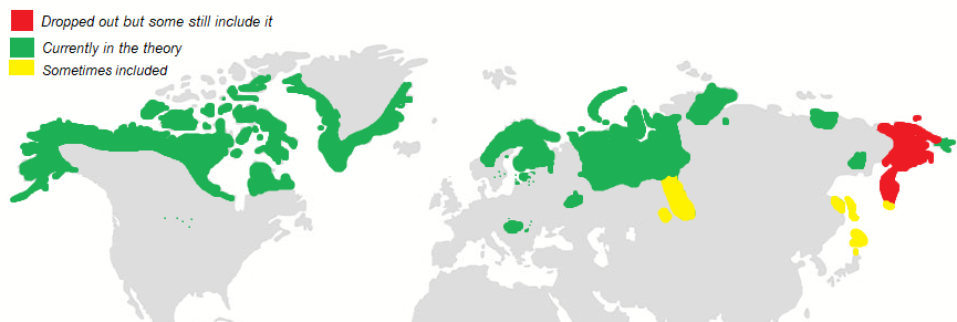 my last version of uralo siberian